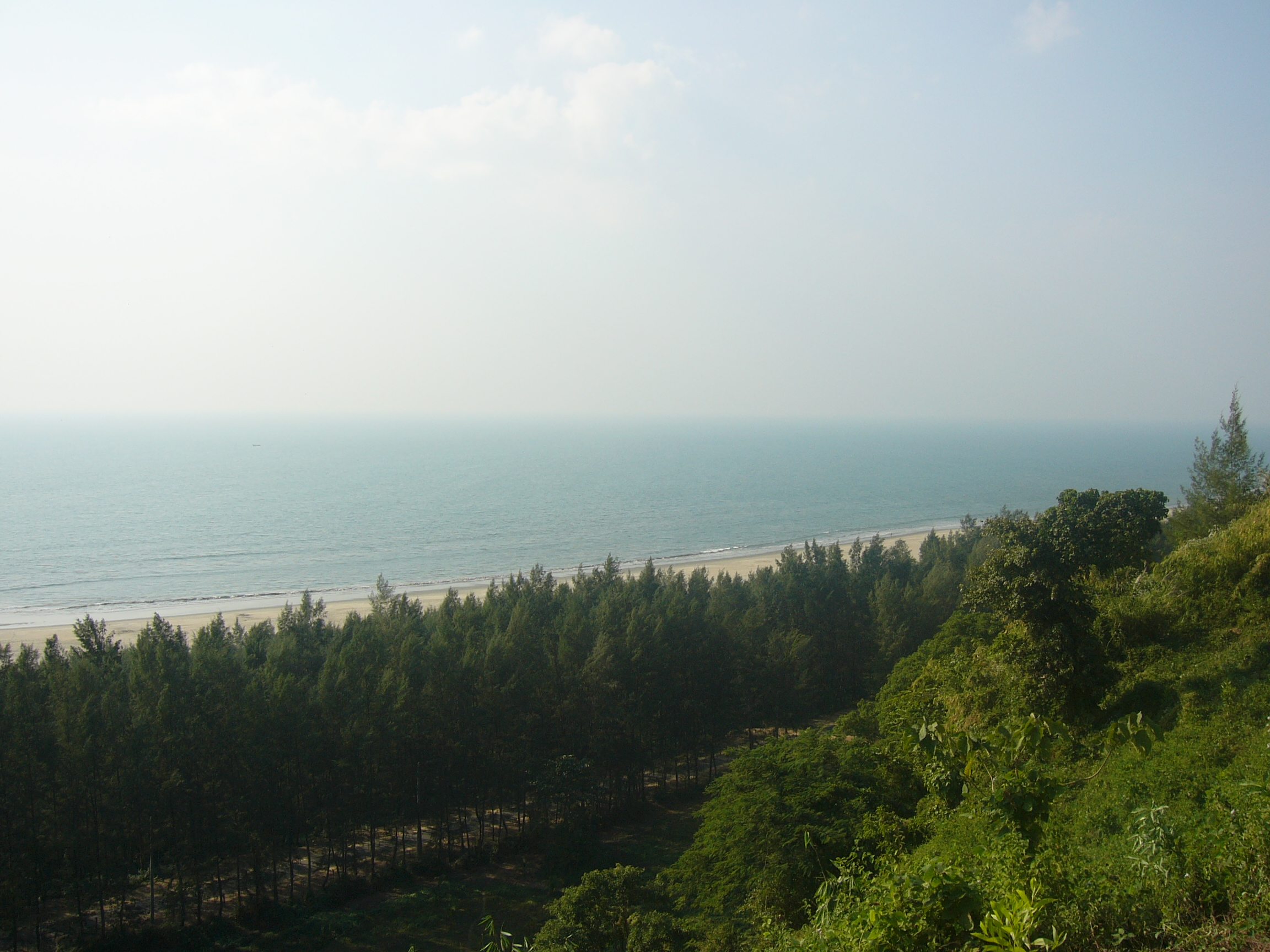 Author Shahnoor Habib Munmun